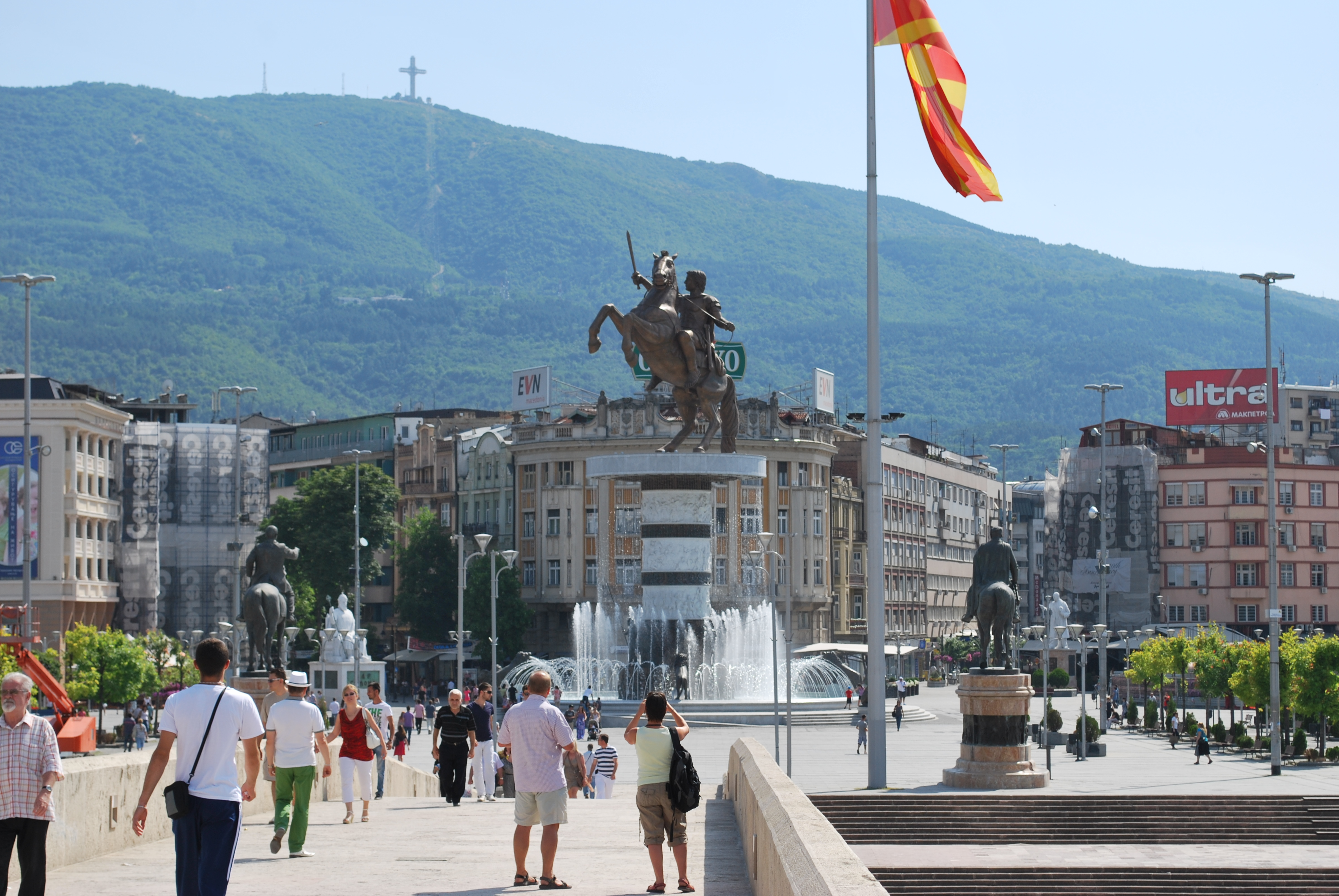 Skopje, Macedonia